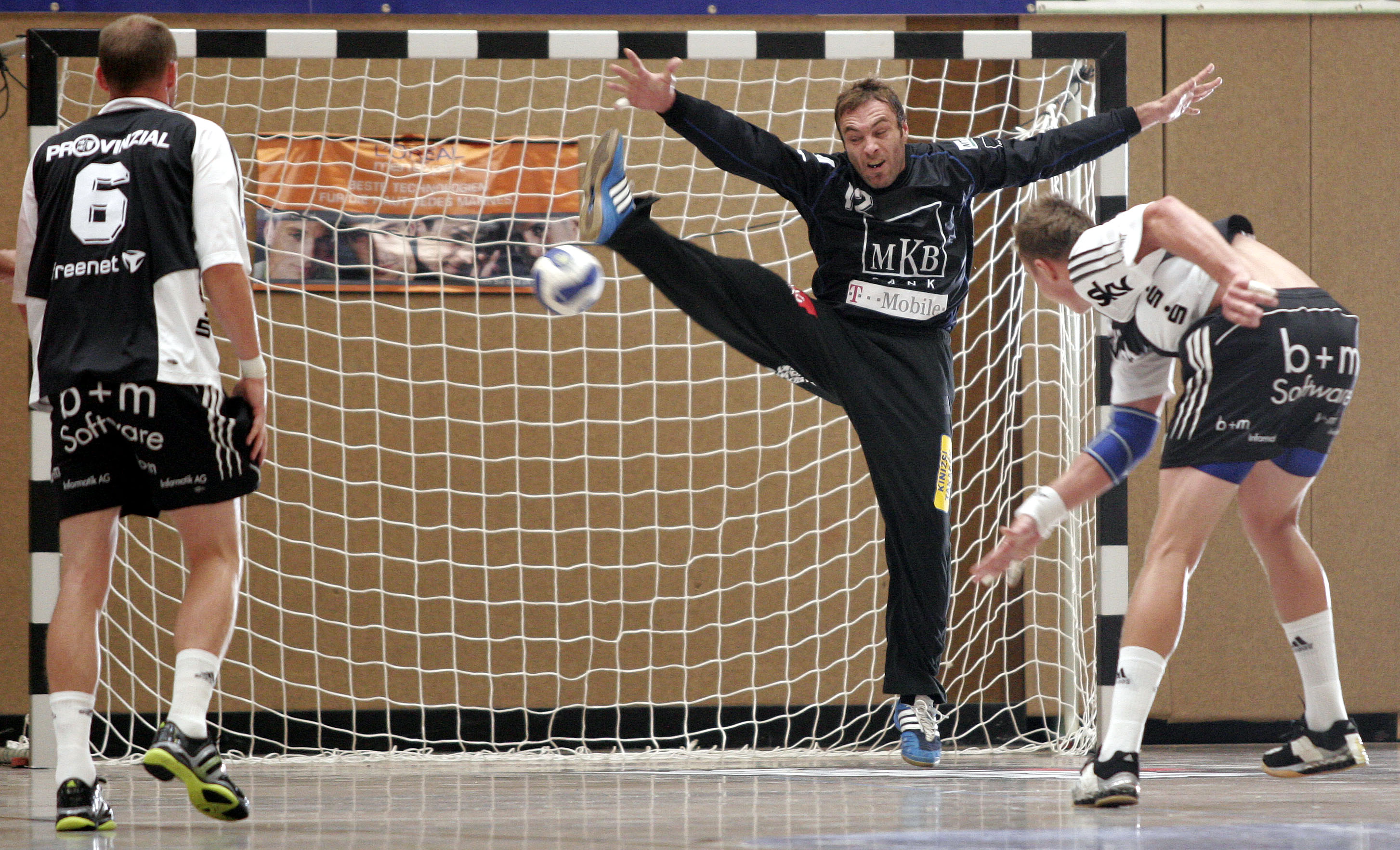 Dejan Perić, Serbian handball player from MKB Veszprém , during the Schlecker Cup 2007 in Ehingen (Germany)